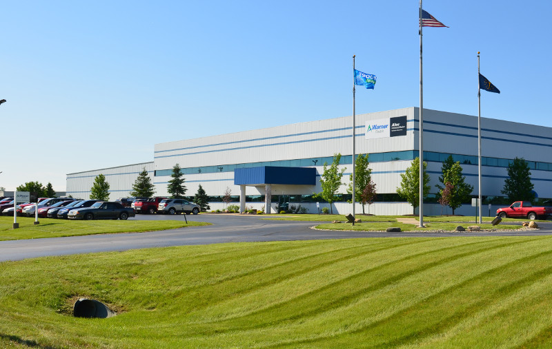 Altra Industrial Motion's Warner Electric has a renovated facility in Columbia City, IN in the United States.